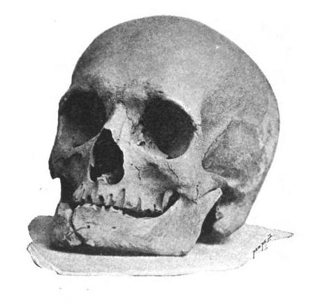 skull of Jacob Joseph Frank, removed in 1866 from his grave with the planation of the old cemetry in Offenbach, currently under the care of the local historian Emil Pirazzi (1832-1898)